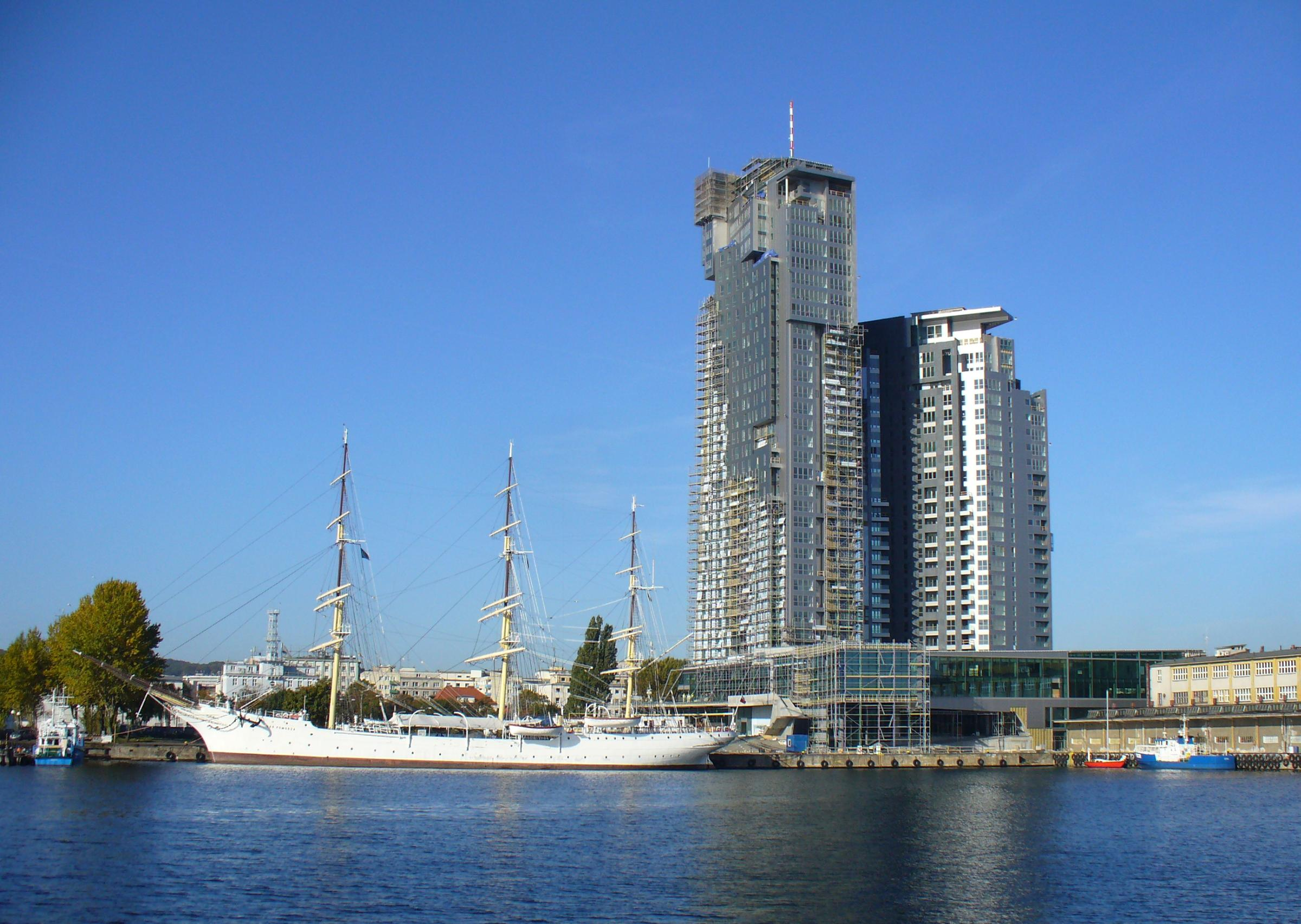 Poland, Gdynia, (Museum ships in Gdynia) and Sea Towers